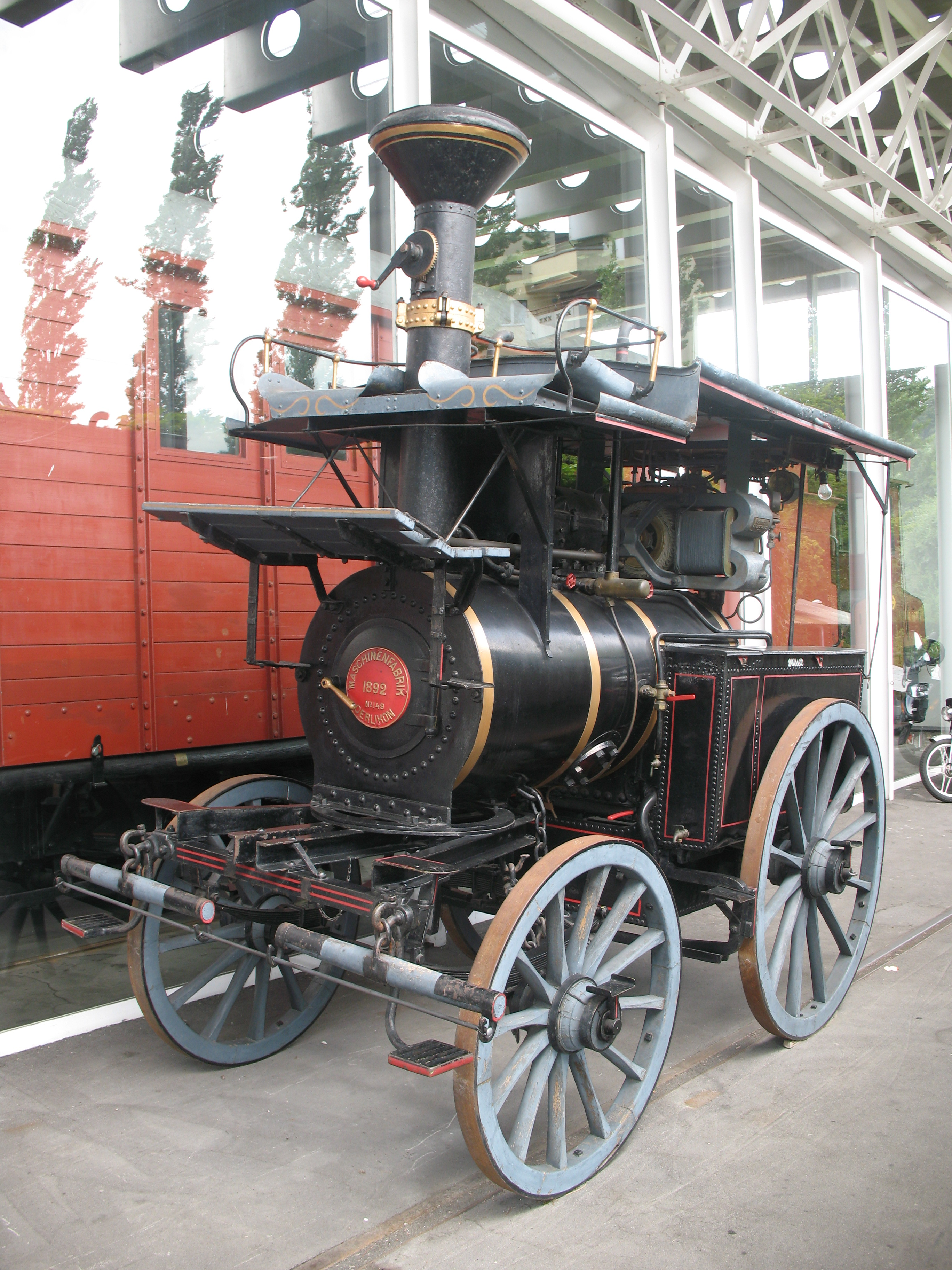 Steam tractor in the Swiss Transport Museum, Luzern, Switzerland